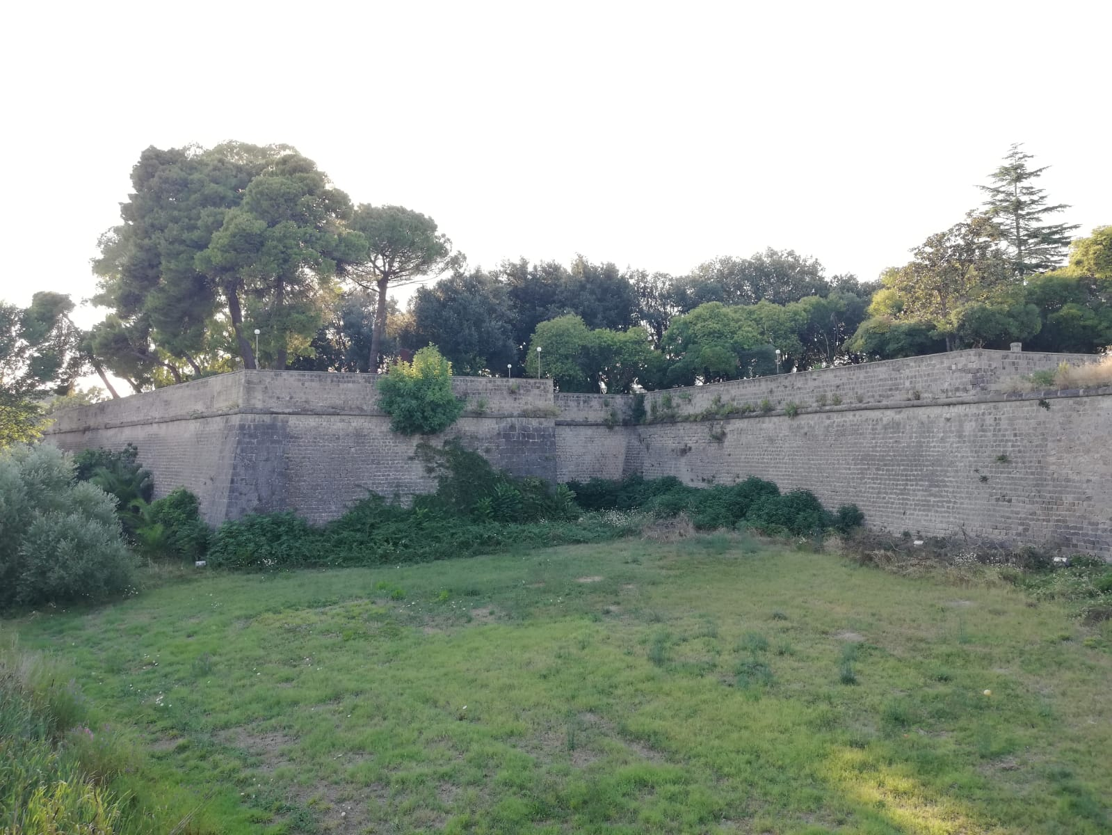 Defensive walls of Capua, Italy